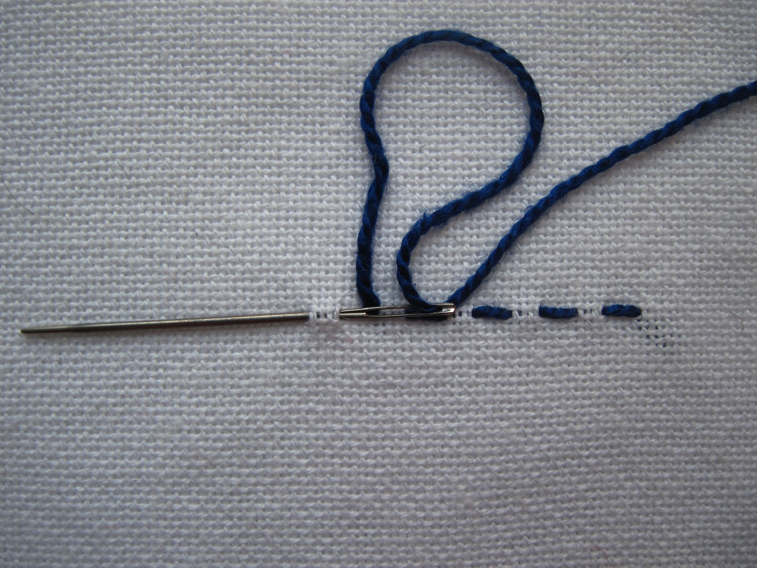 Running stitch